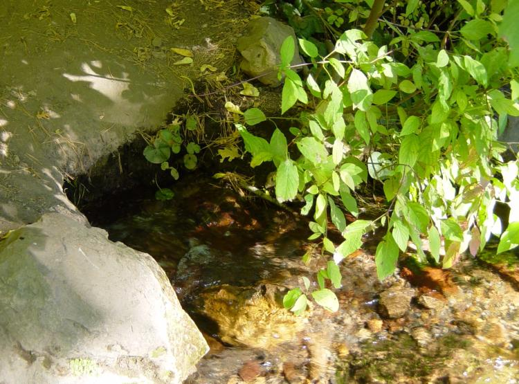 A spring at the Sacramento River headwater. (Original text also include: Photograph by Daniel Mayer. Taken in October 2003 and released under terms of the GNU FDL)